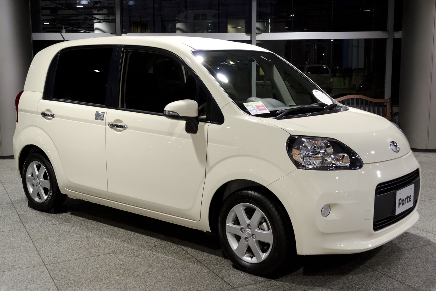 2nd generation Toyota Porte